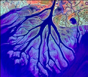 The Wax Lake Delta was formed by the deposition of sediment from a shipping canal off of the Atchafalaya River. The channel was routed through Wax Lake, which quickly filled with sediment. After Wax Lake filled, the sediment from the canal deposited offshore and created the delta.